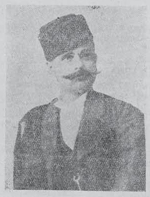 Sofroniya Gavrilov from Brezovo, Demir Hisar